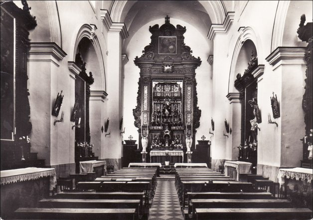 Chiesa di San Francesco d'Assisi (città di San Cataldo, provincia Caltanissetta)(1).jpg